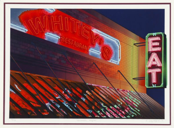 Achromatic Neighbor by Clay Huffman